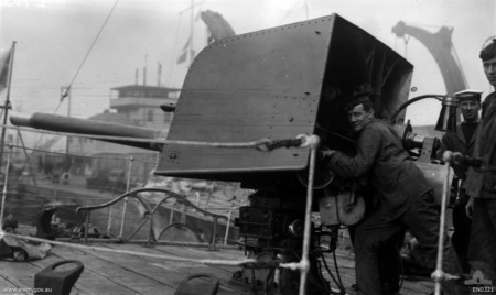 Gunners at the BL 4-inch Mk VIII gun on the bow of the Australian destroyer HMAS Huon at Devonport, UK.